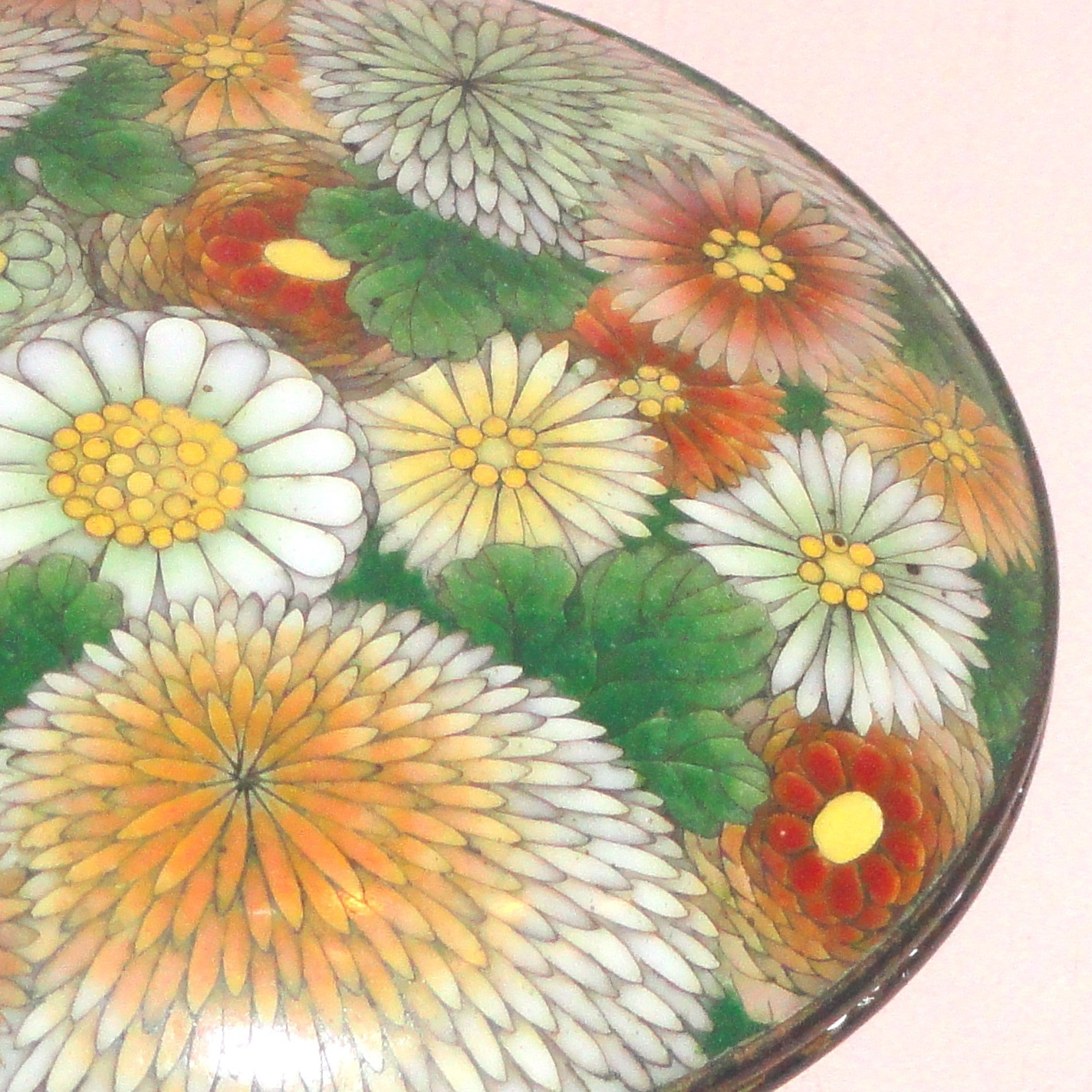 Japanese wired cloisonné type yūsen shippō (有線七宝). Box by Kawade Shibatarō (1856-c.1921), Japanese Cloisonné Collection, George Walter Vincent Smith Art Museum.